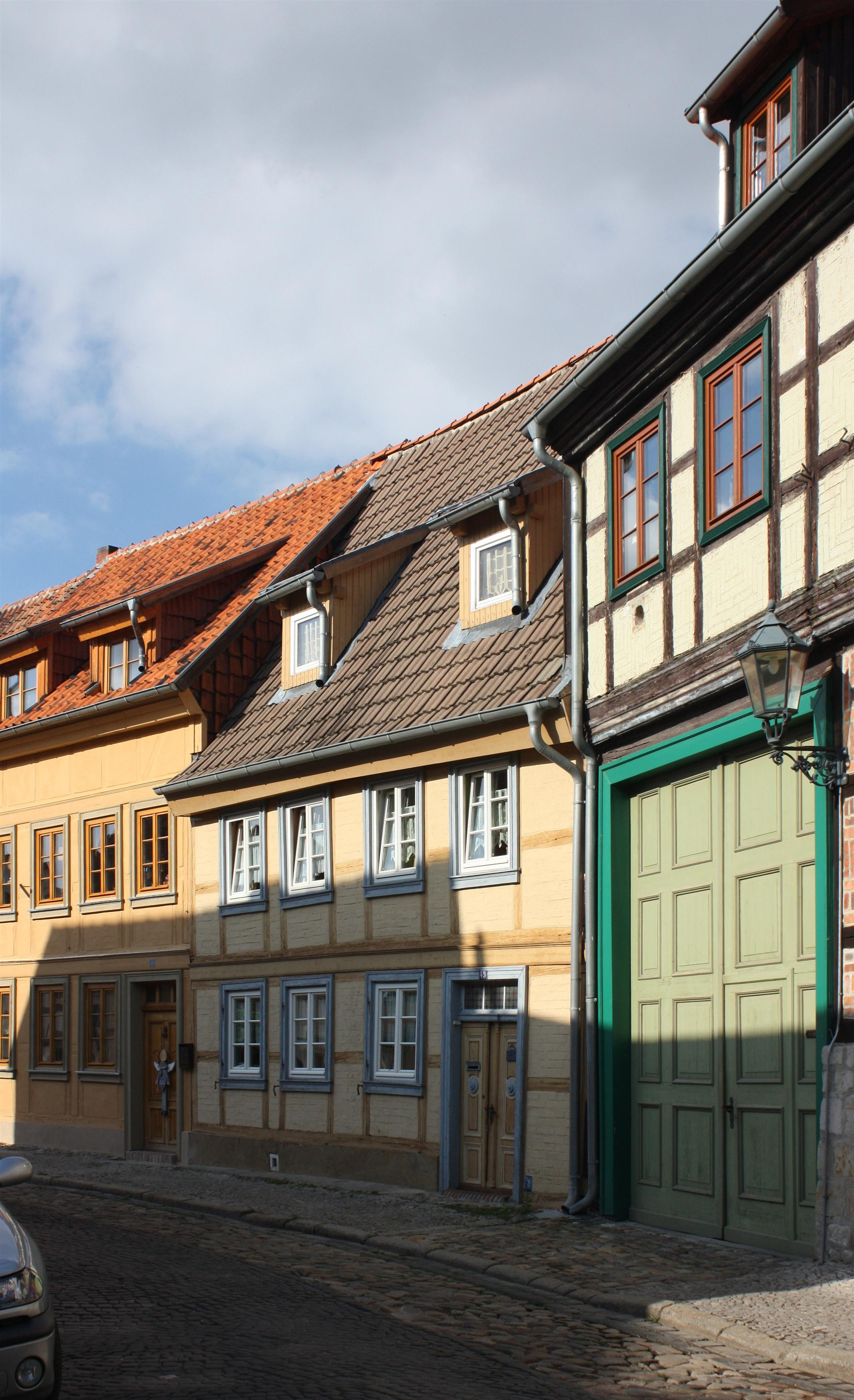 This is a photograph of an architectural monument.It is on the list of cultural monuments of Quedlinburg Augustinern 49 in Quedlinburg